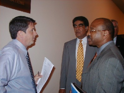 Congressman David Vitter and Orleans Parish District Attorney Eddie Jordan discuss the anti-corruption unit that they are working to fund federally.